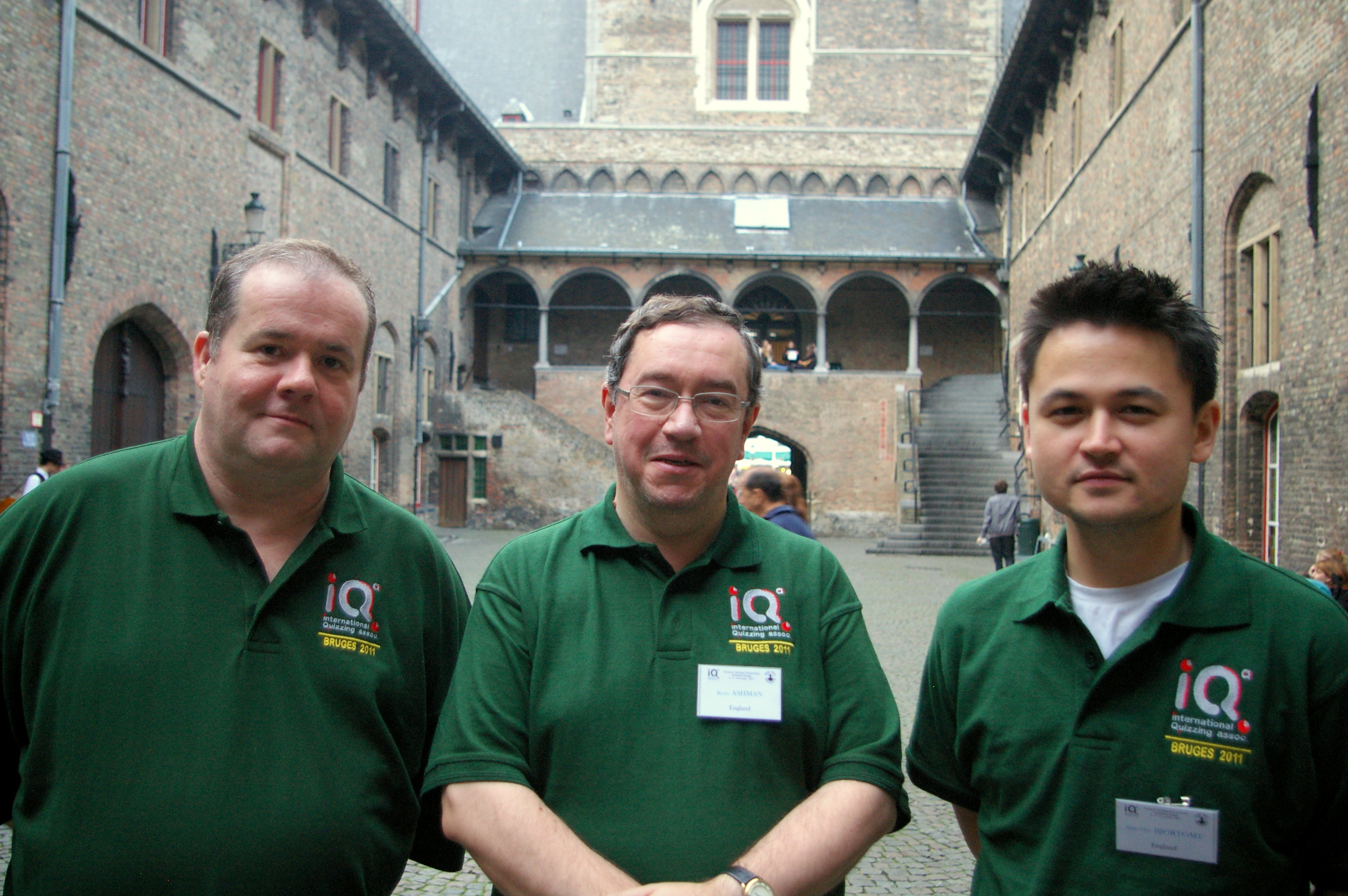 On the European Quizzing Championship of 2011 in Bruges (Belgium), the best quizzers in the singles championship were Kevin Ashman (first place, in the middle), Pat Gibson (second place, left) and Olav Bjortomt (third place, right)